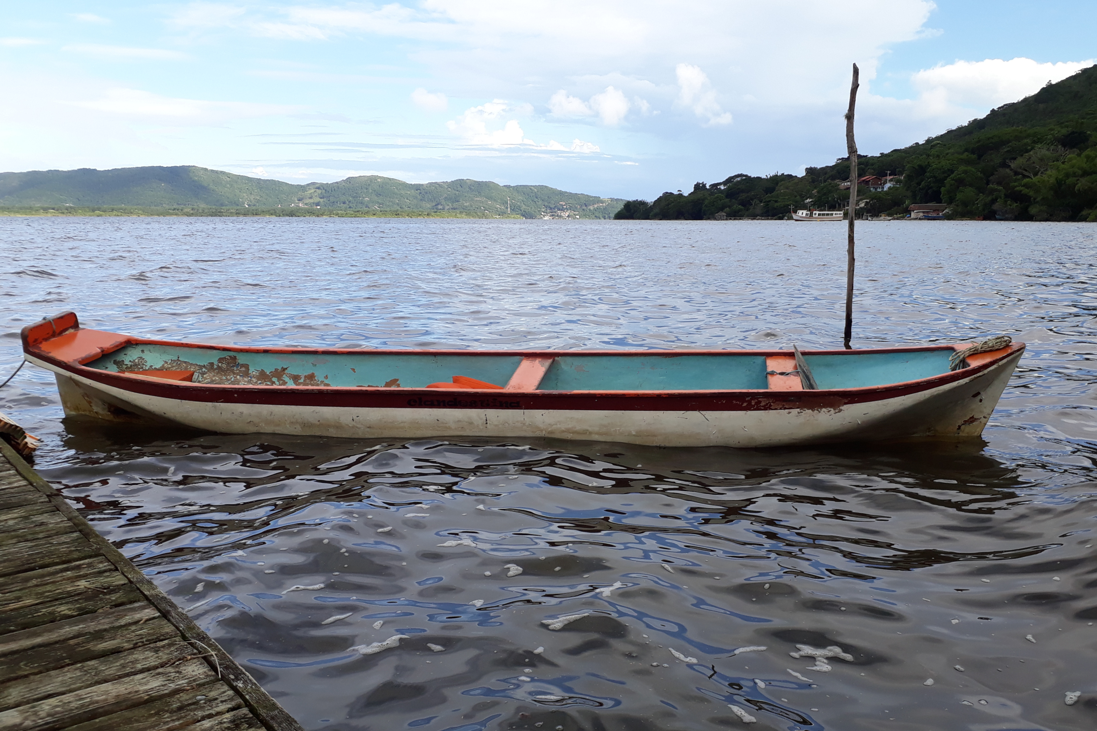 Tree canoe from the species Schizolobium parahyba. In Costa da Lagoa da Conceição, Florianópolis, southern Brazil